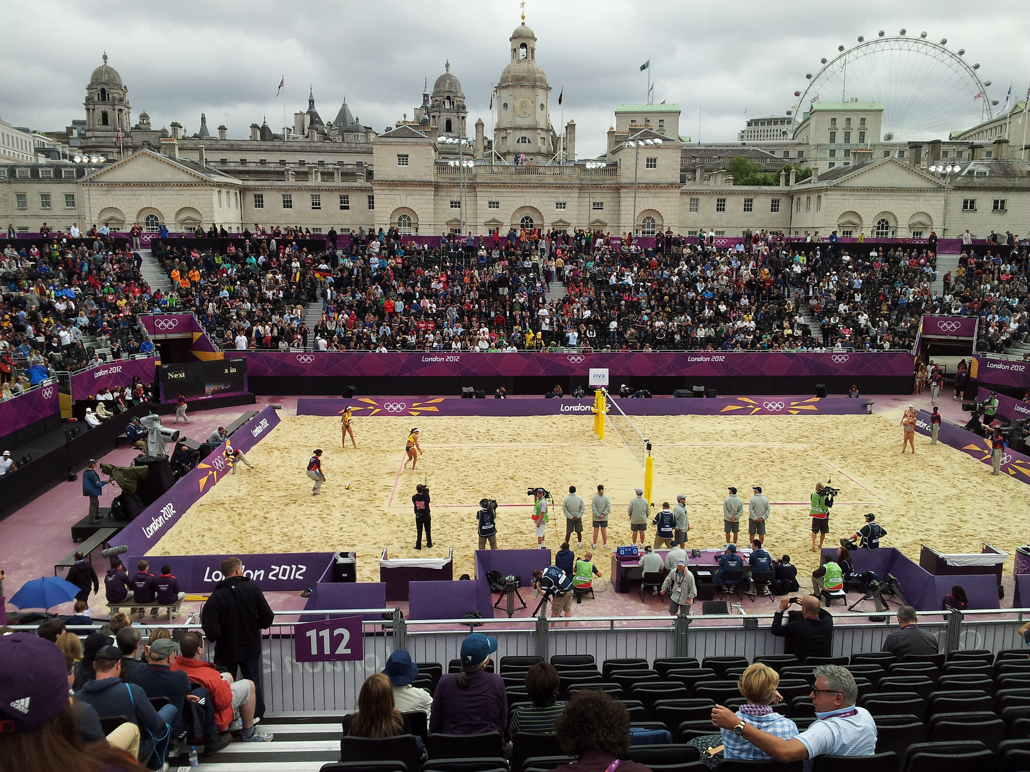 Women's Beach Volleyball, London 2012, BRA v AUS